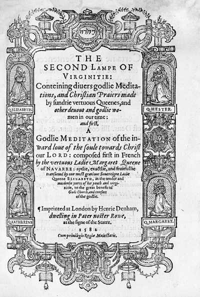 Title page to the Second "Lamp" or Book of The Monument of Matrones: Conteining Seven Severall Lamps of Virginitie, or Distinct Treatises; Whereof the First Five Concerne Praier and Meditation: the Other Two Last, Precepts and Examples compiled by Thomas Bentley and printed by Henry Denham, London, 1582.